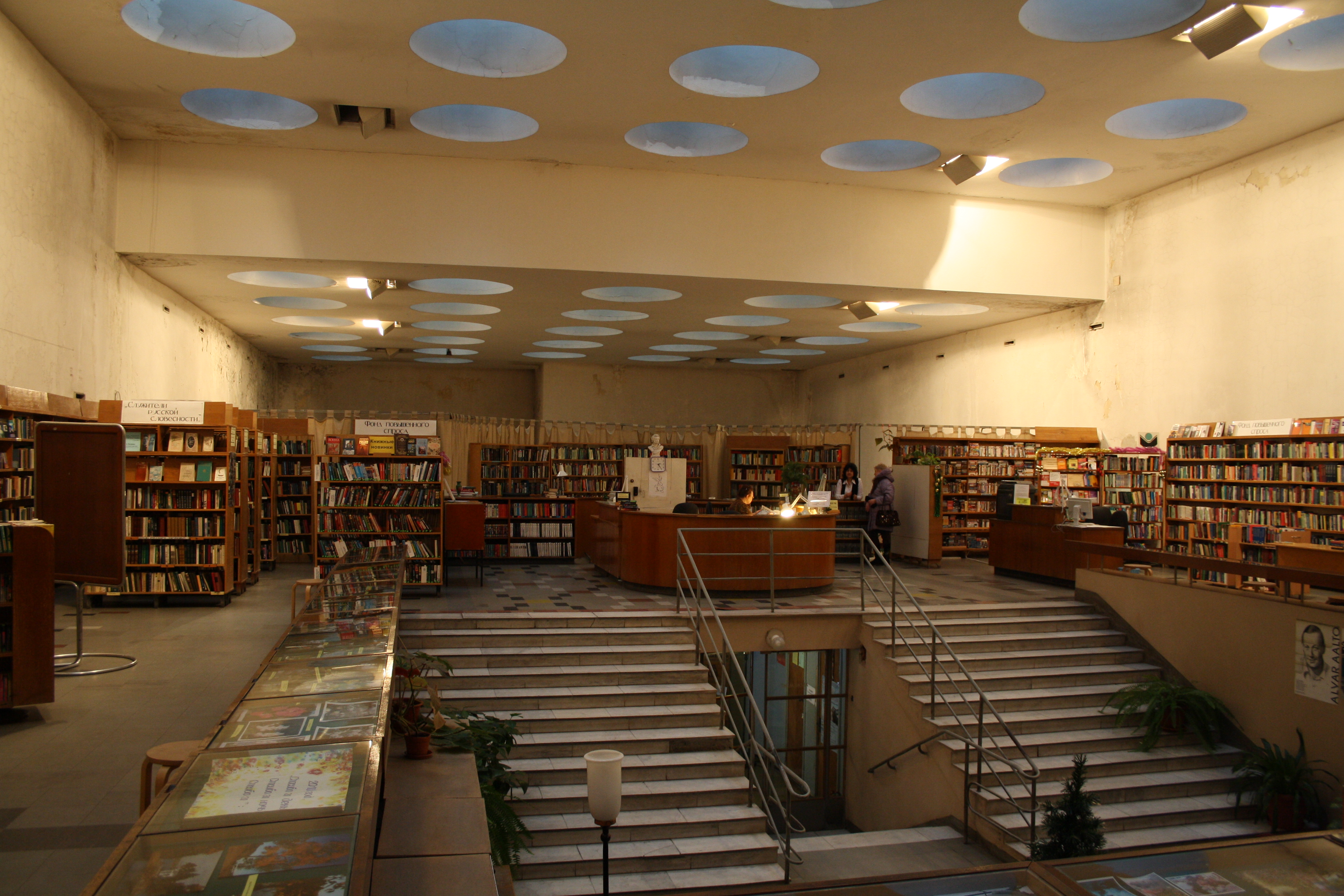 Interior of Vyborg Library, January 2011